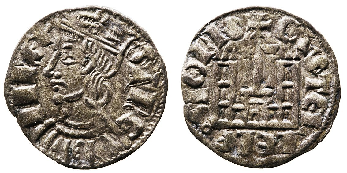 Castilian cornado, billon coin from the reign of Sancho IV of Castile (1284-1295). Minted in Cuenca.